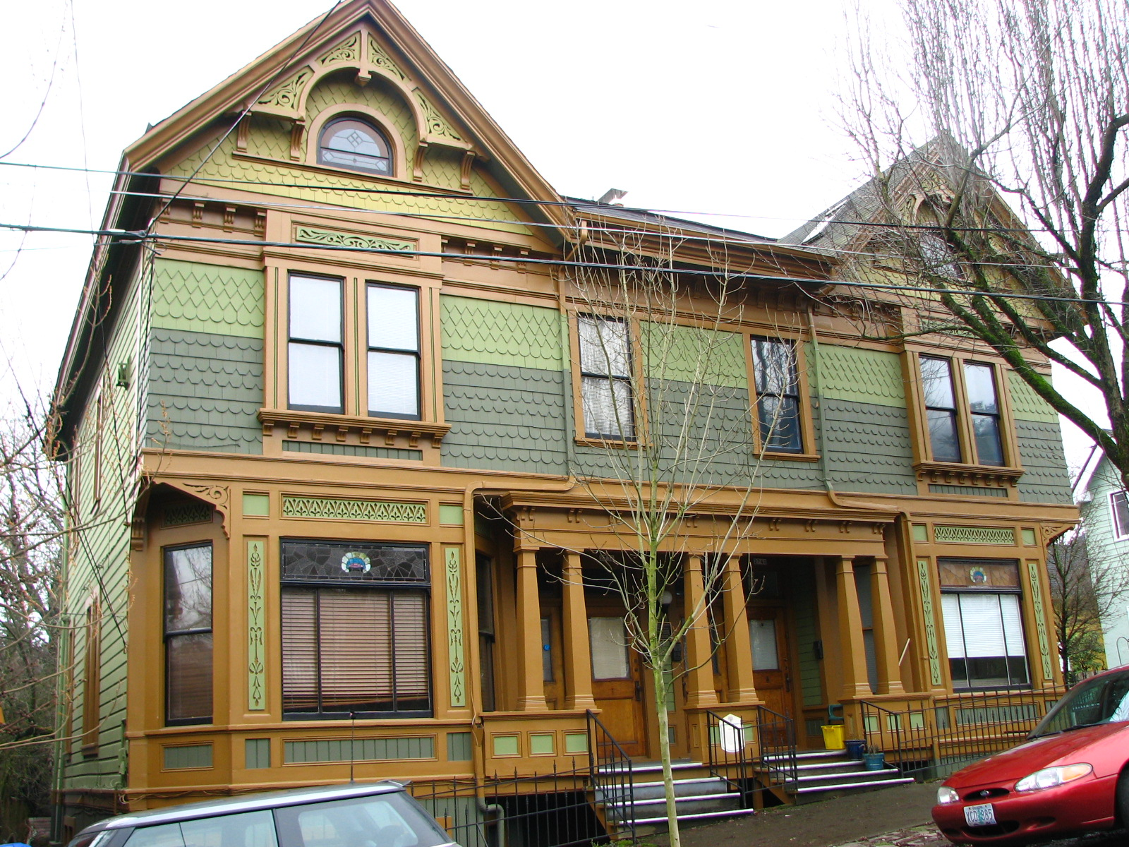 The historic Corkish Apartments (built ca. 1890), located at 2734–2740 Southwest 2nd Avenue in Portland, Oregon, United States, is listed on the US National Register of Historic Places.